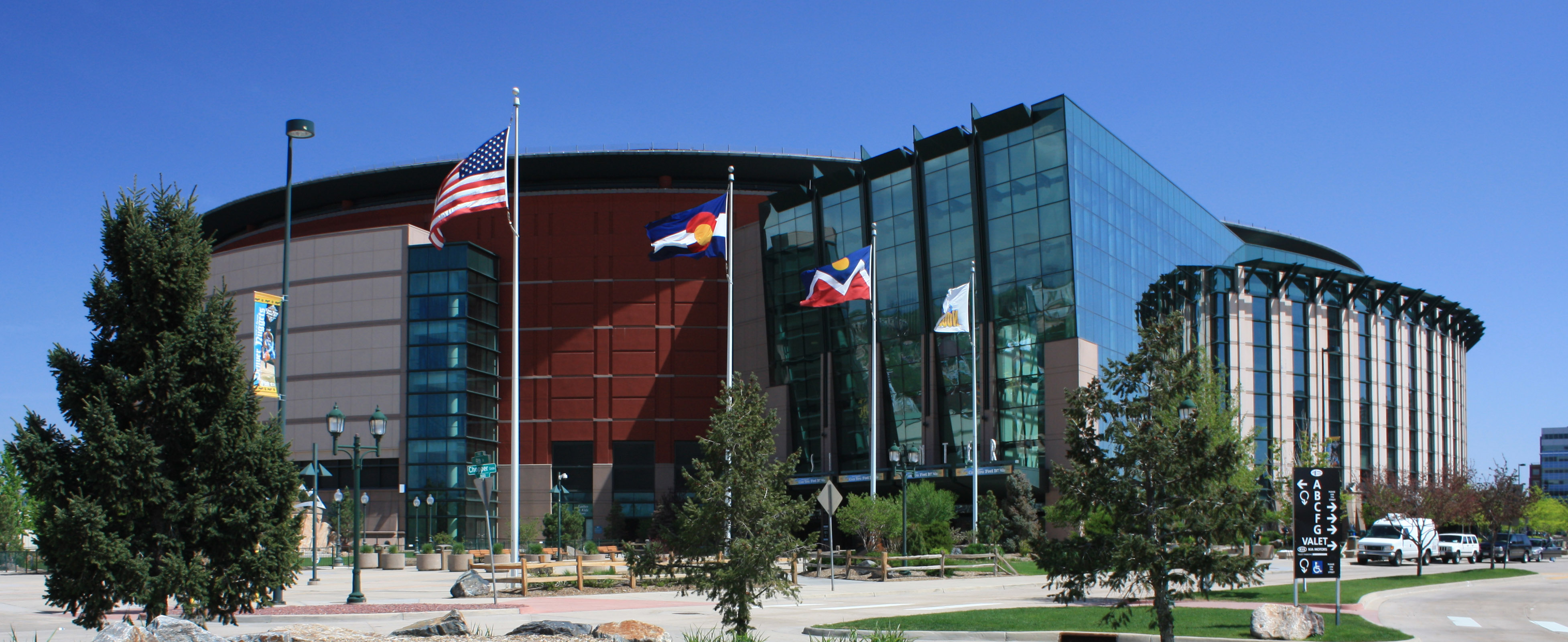 Several hours before Game 5 of the Denver Nuggets second round game against the Dallas Mavericks, which the Nuggets won 124-110.